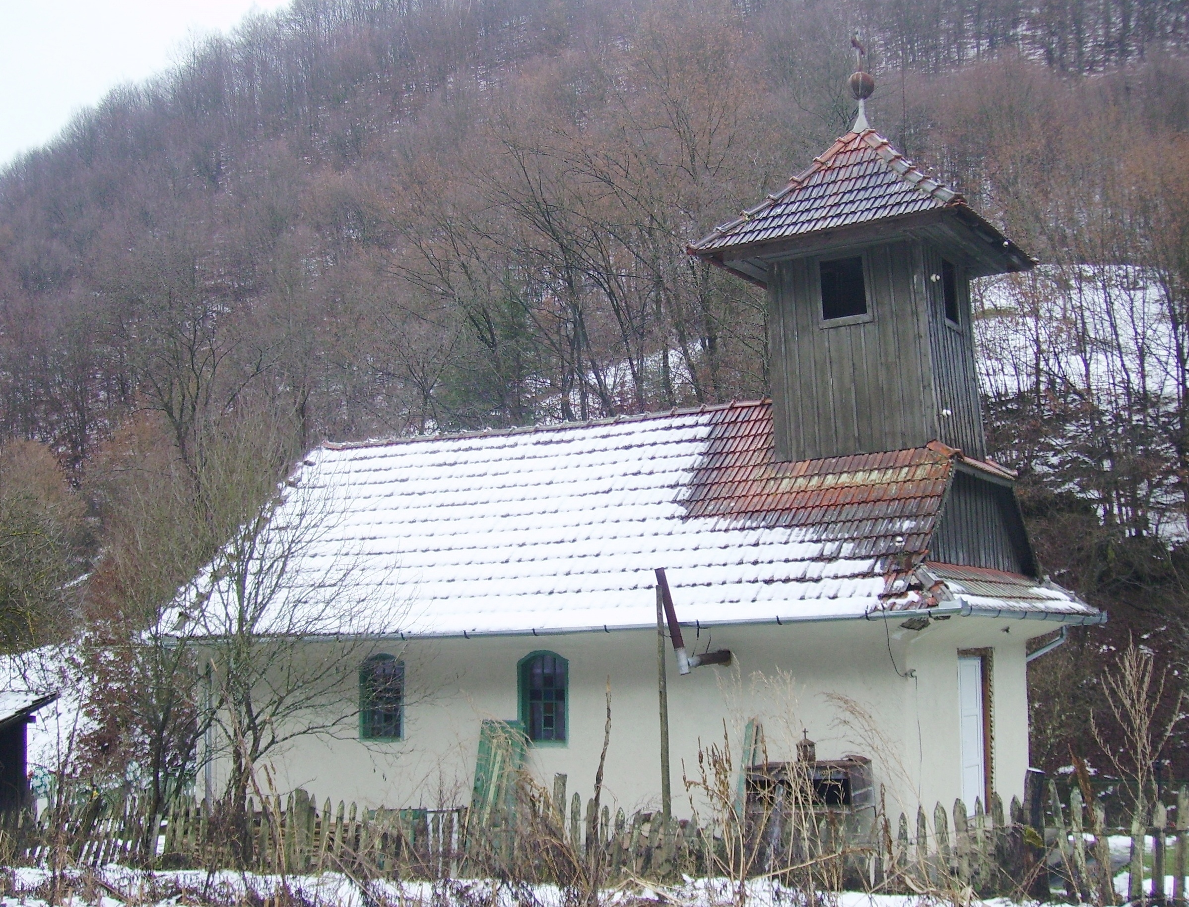 The wooden church in Buzdular, Hunedoara county, Romania